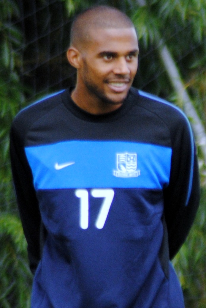 Photo of Southend United player Louie Soares, taken at Southend's Boots and Laces Training Ground.